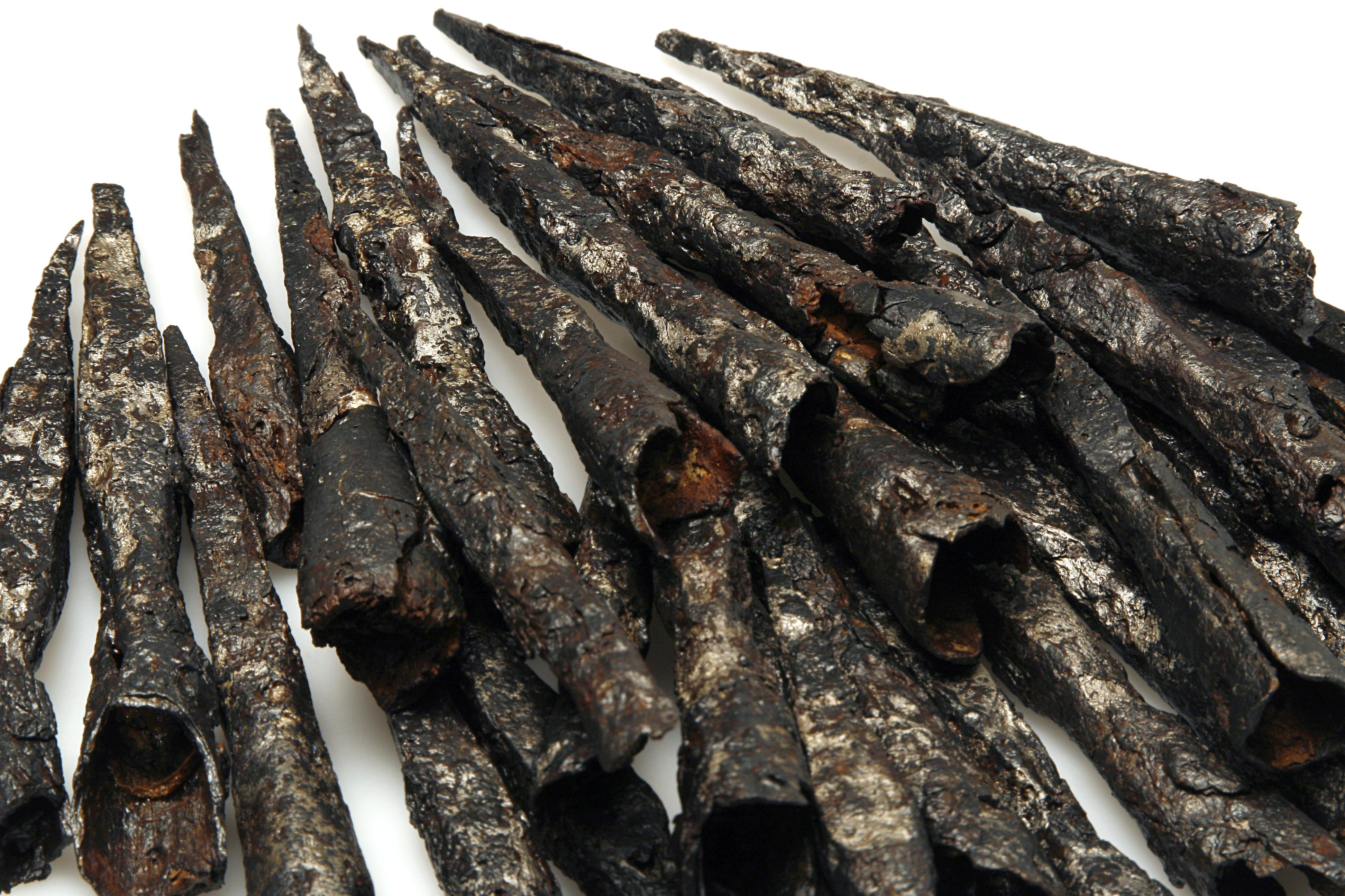 Battle at the Harzhorn: Iron tips of Roman catapult projectiles.